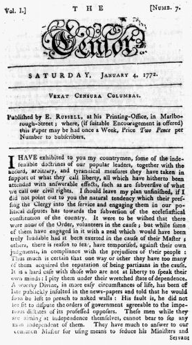 The Censor; Date: 01-04-1772 (Boston, Massachusetts) Further information: American Antiquarian Society. Catalog.